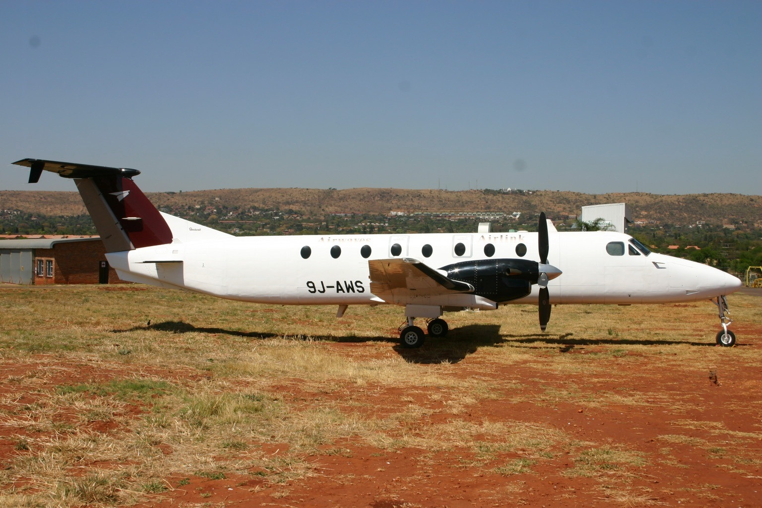 At Wonderboom Airport